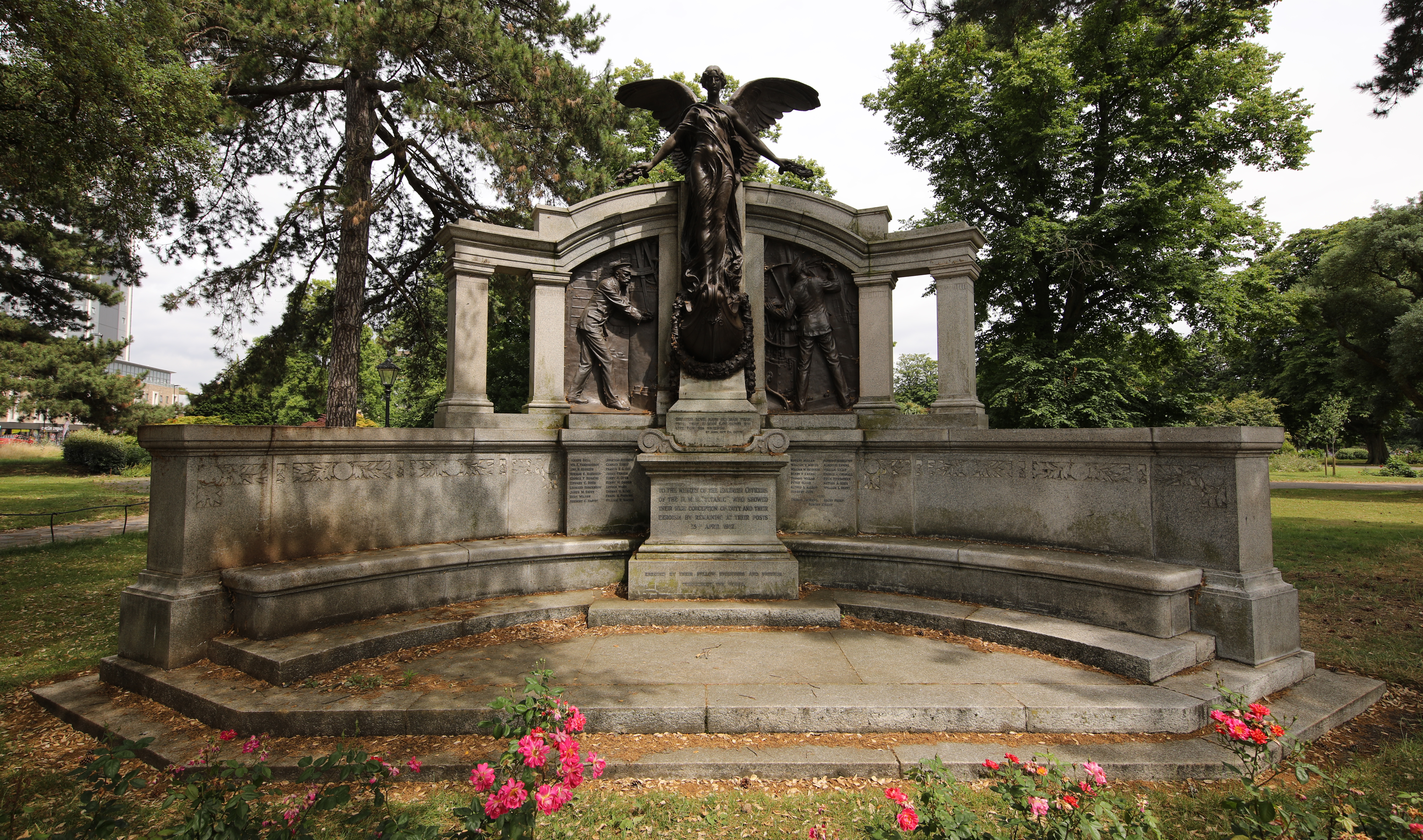 Photo of Titanic Engineers' Memorial